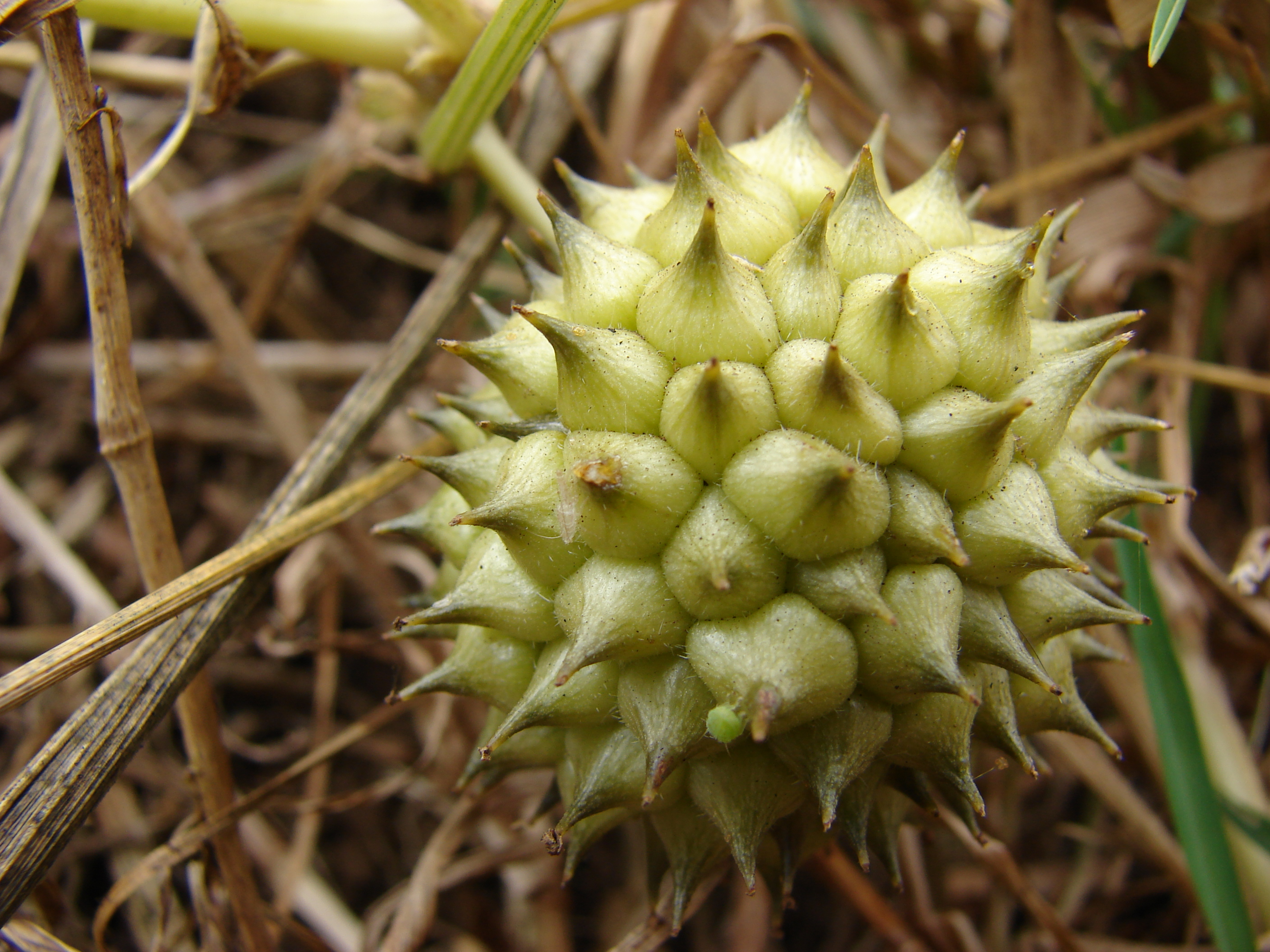 Sicyos pachycarpus (fruit). Location: Maui, near Rice Park Kula